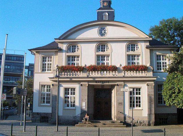 former town hall of Hennef (Sieg), Germany